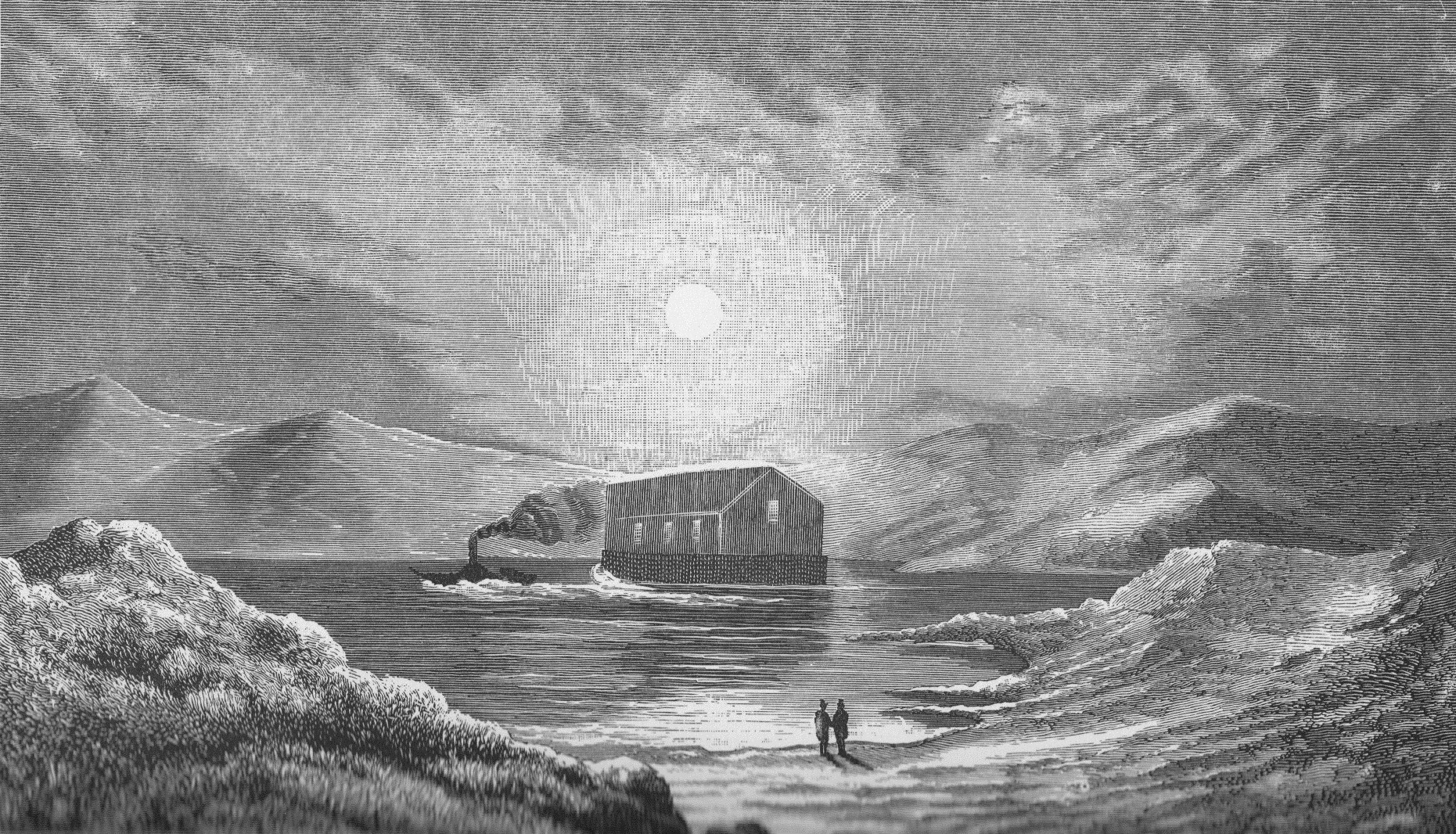 A floating iron church in the 1840s, when the Free Church of Scotland was often denied the use of locations on which to erect its own churches.